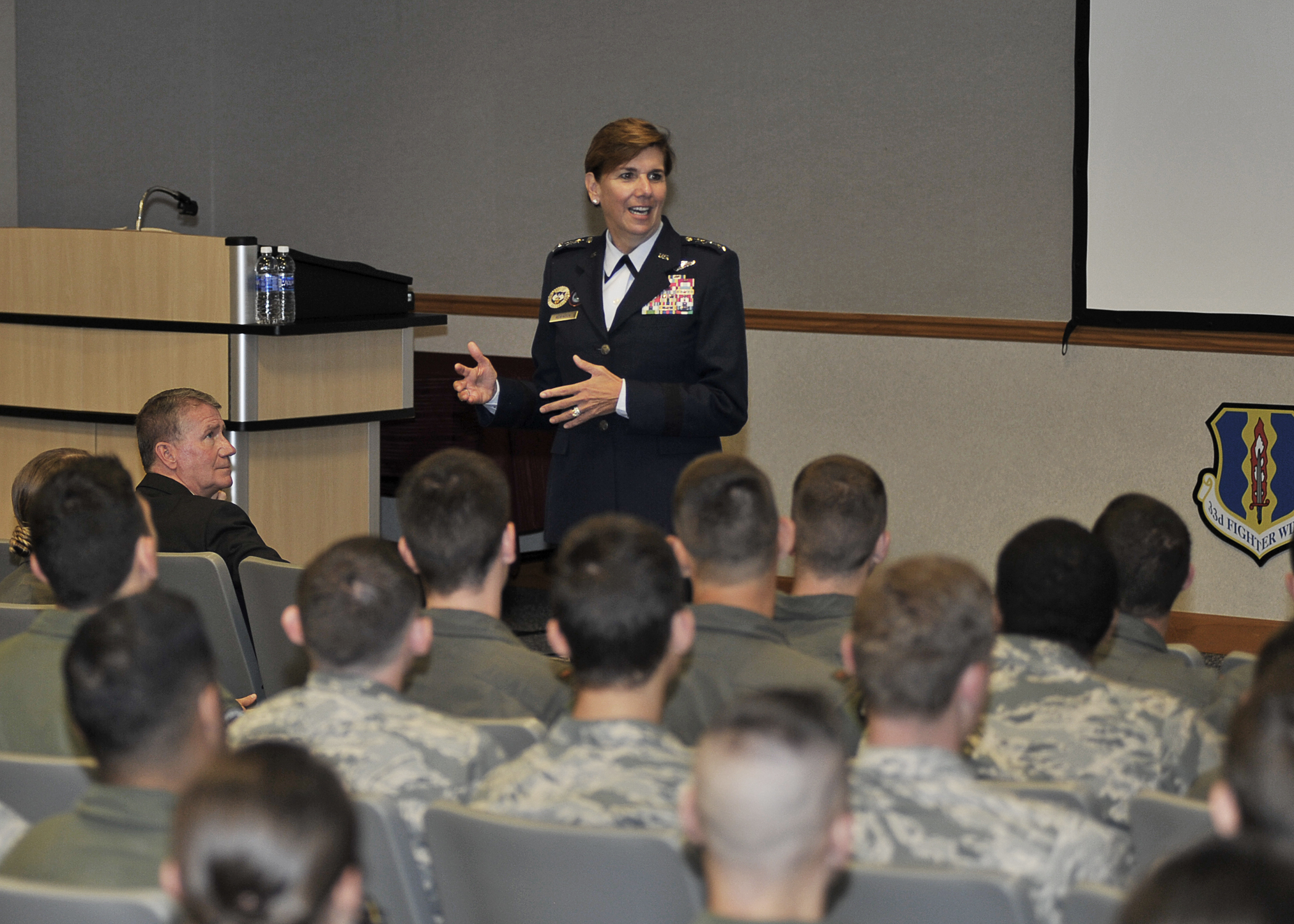 U.S. Air Force Gen. Lori J. Robinson, North American Aerospace Defense Command (NORAD) and United States Northern Command (USNORTHCOM) commander, speaks to Airmen of the 337th Air Control Squadron at Tyndall Air Force Base, Fla., July 6, 2016. Robinson spoke to Airmen about her time in the Air Force and the experiences she had as an air battle manager and commander. (U.S. Air Force photo by Senior Airman Sergio A. Gamboa/Released) Unit: 325th Fighter Wing Public Affairs DVIDS Tags: 325th Fighter Wing; 337th Air Control Squadron